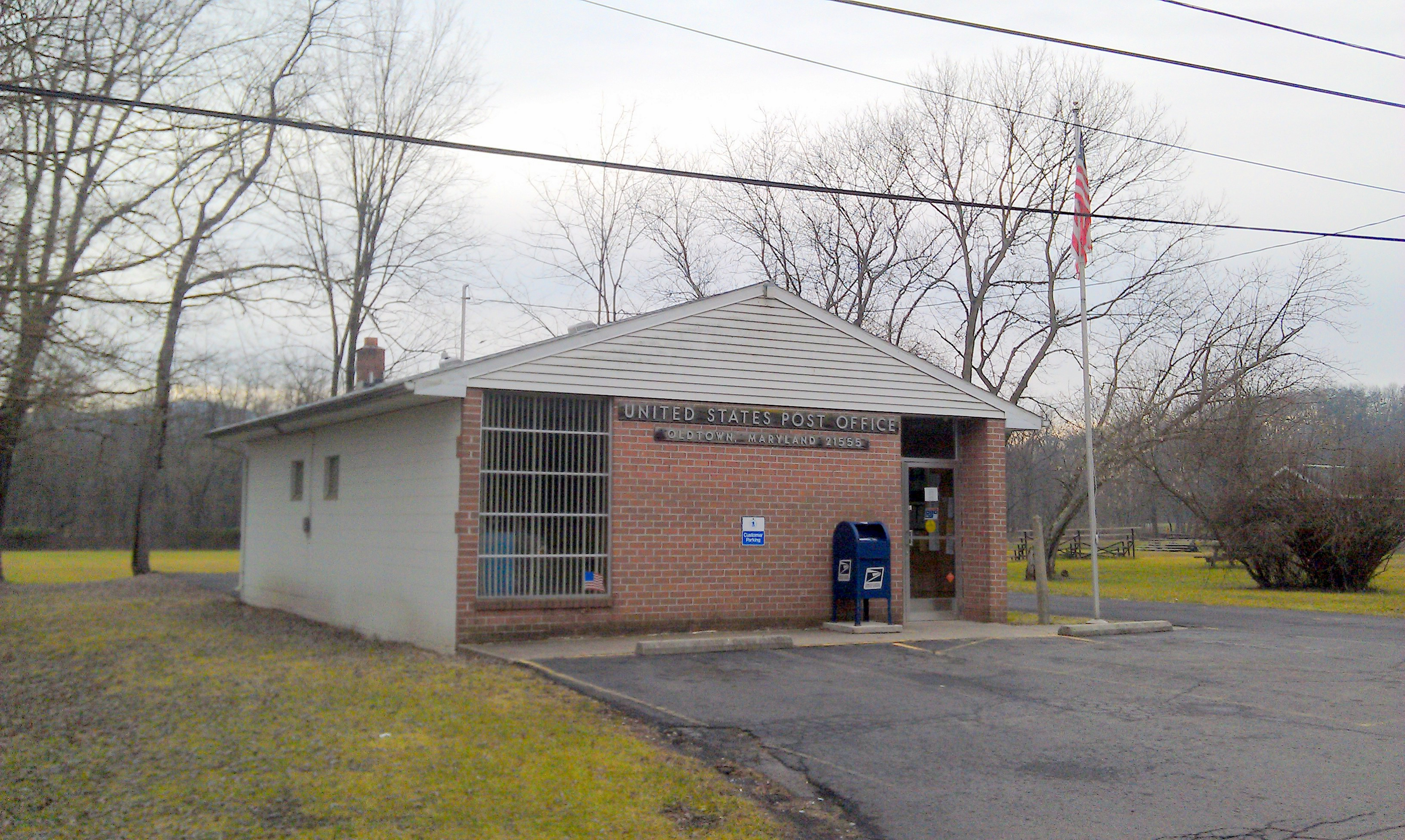 U.S. Post Office Oldtown MD Dec 11, December 2011